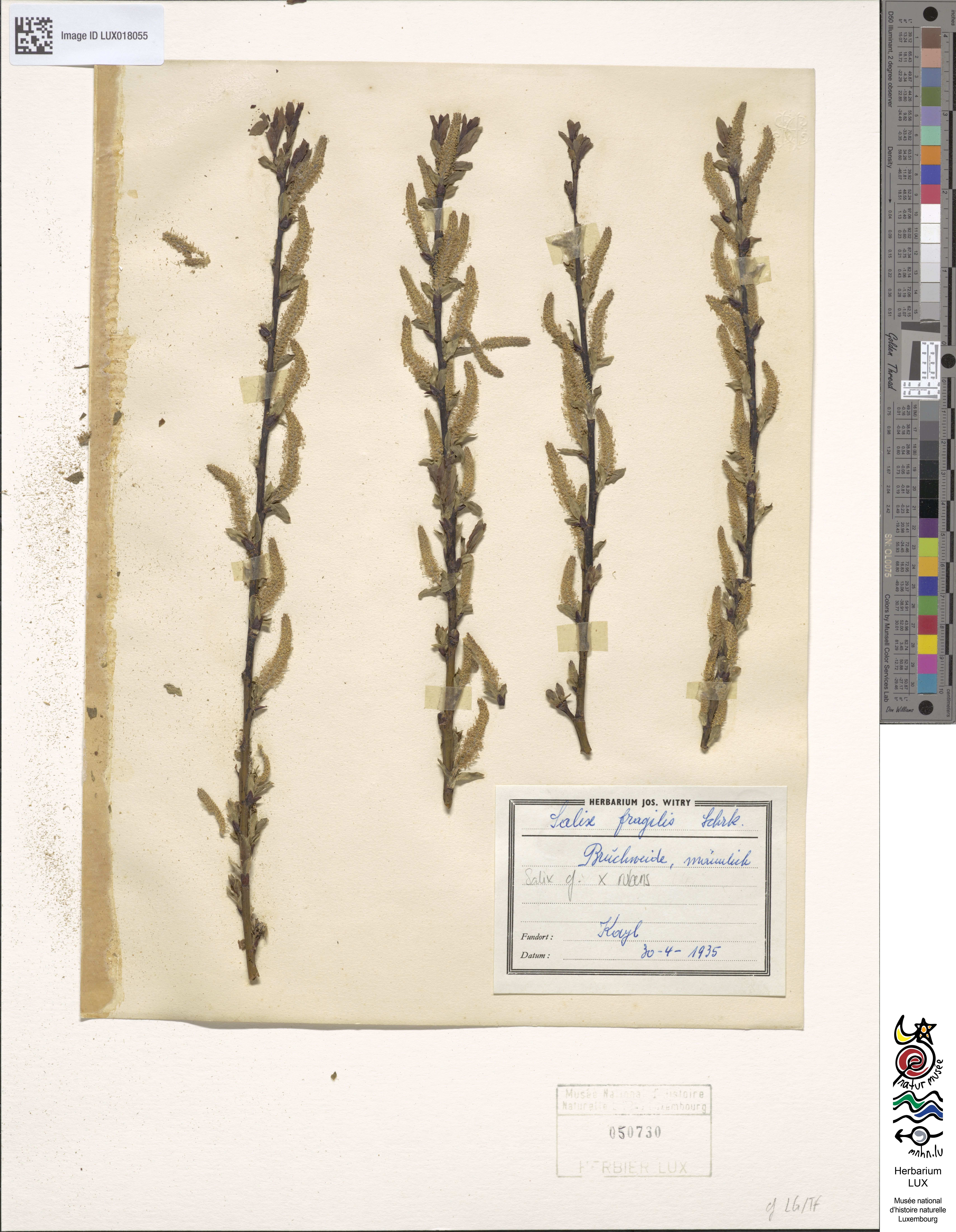 Herbarium sheet